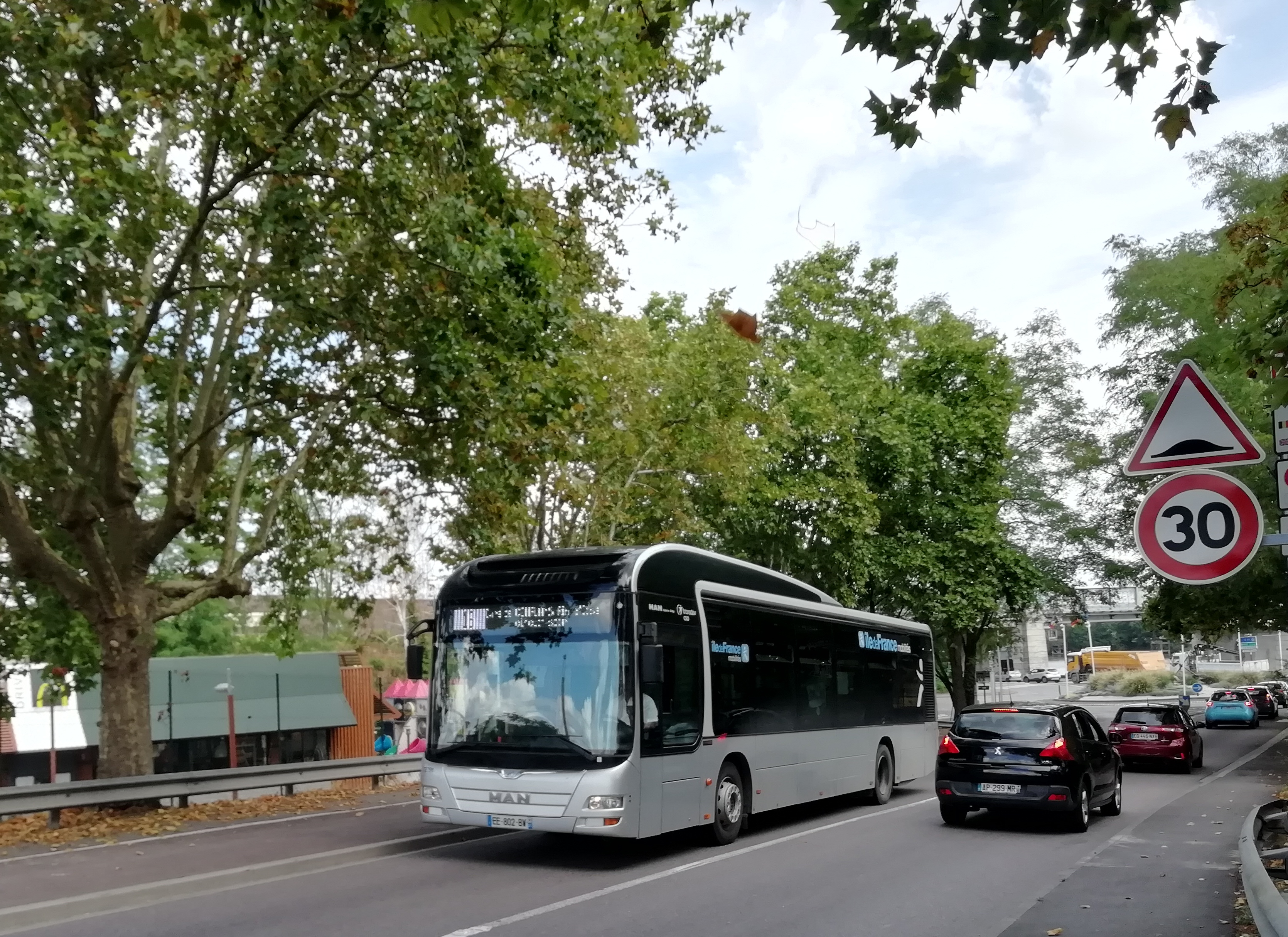 Man Lion's city Hybride n°72791 sur la 16